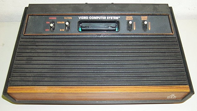 Atari 2600 Game console. Picture taken by SanderK. Per [1], it's apparently the CX-2600 AP ("4 button") version, sold in 1977 and 1978.